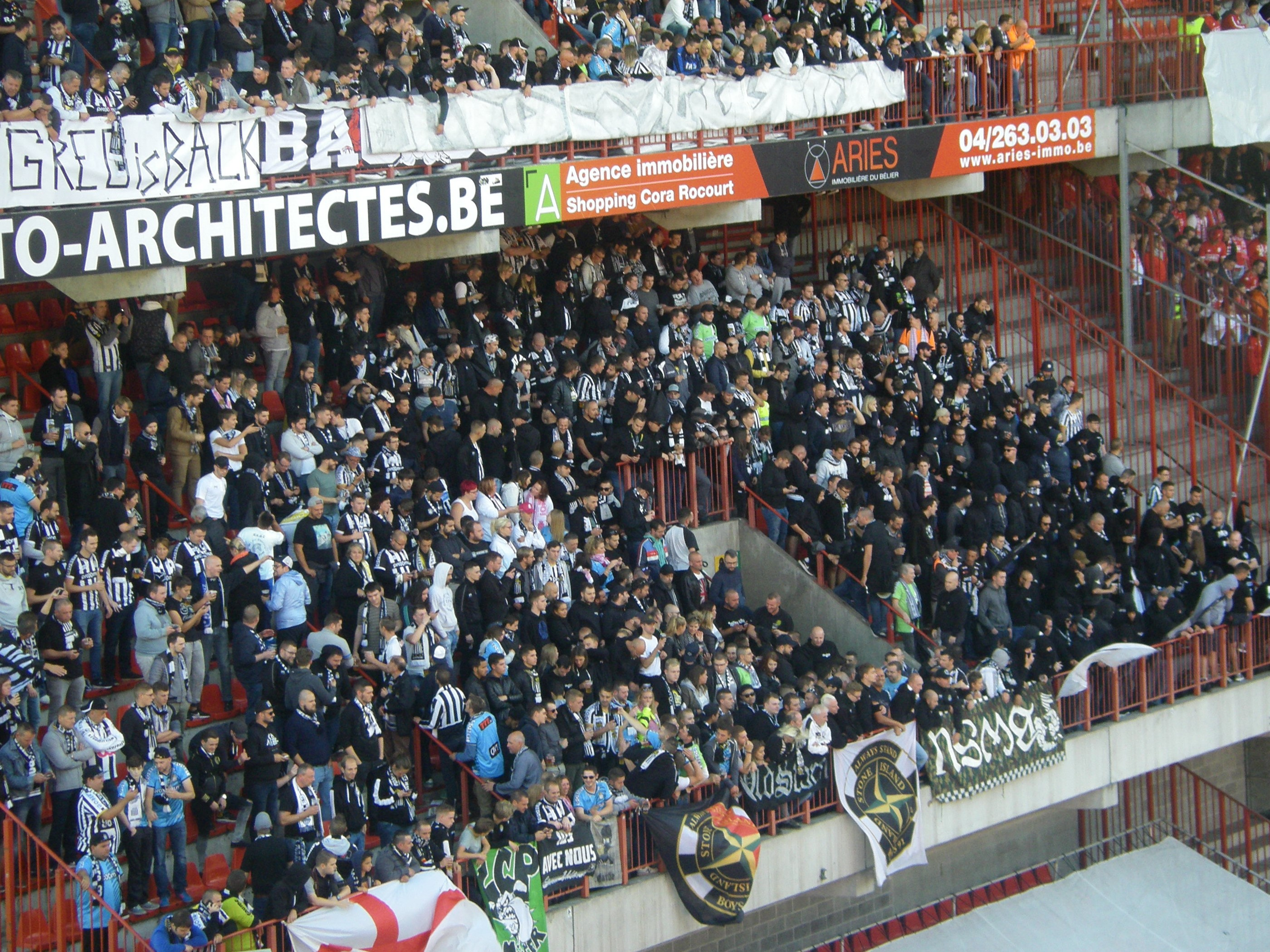 Fans of Royal Charleroi Sporting Club prior to a derby match against Standard de Liège (0:0) on September 10, 2017.